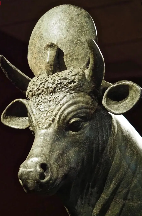 A large statue of Apis, the divine bull of the ancient Egyptian capital Memphis